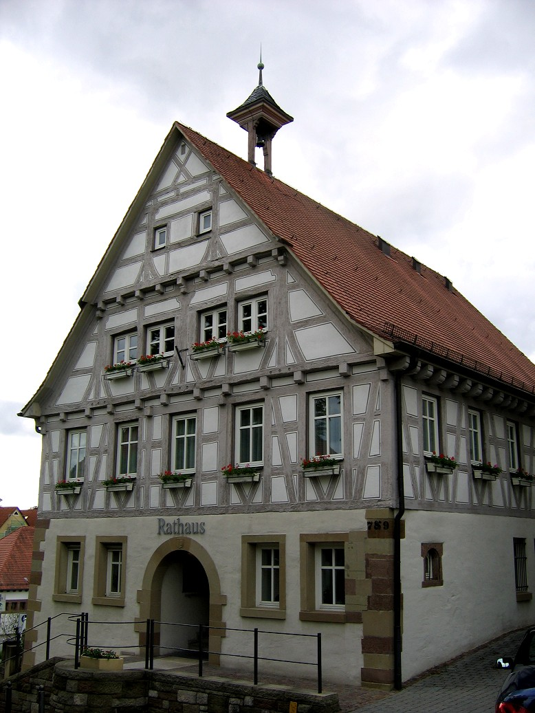 Rathaus (town hall) of Korb, Württemberg, Germany Mussklprozz, own picture, taken on 2006-05-27